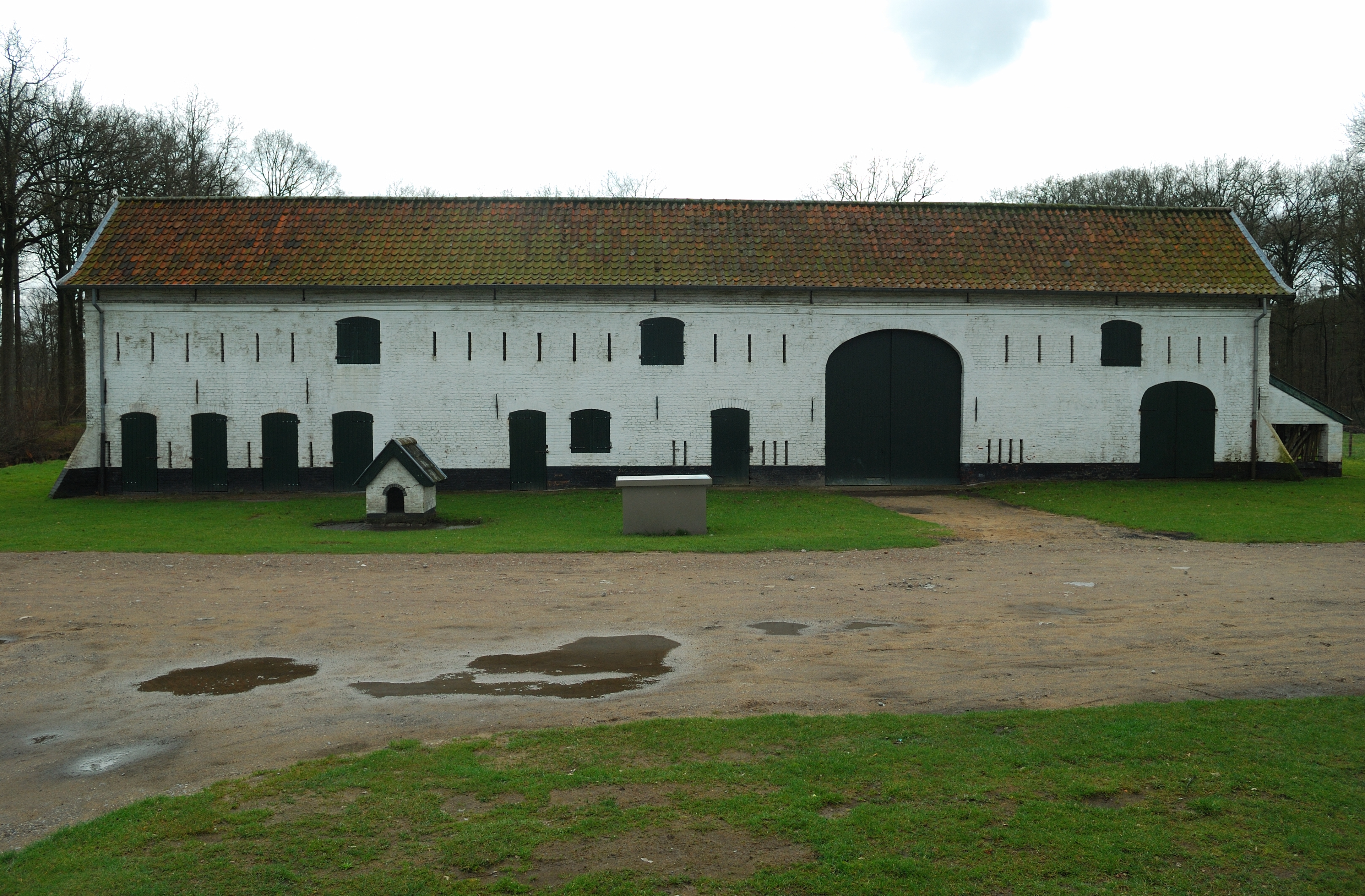 Visitor's centre in the barn of Drongengoedhoeve at Ursel, Belgium. Nikon D60 f=18mm f/7.1 at 1/200s ISO 200 with a linear polarisation filter. Processed using Nikon ViewNX 1.5.2 and GIMP 2.6.6.